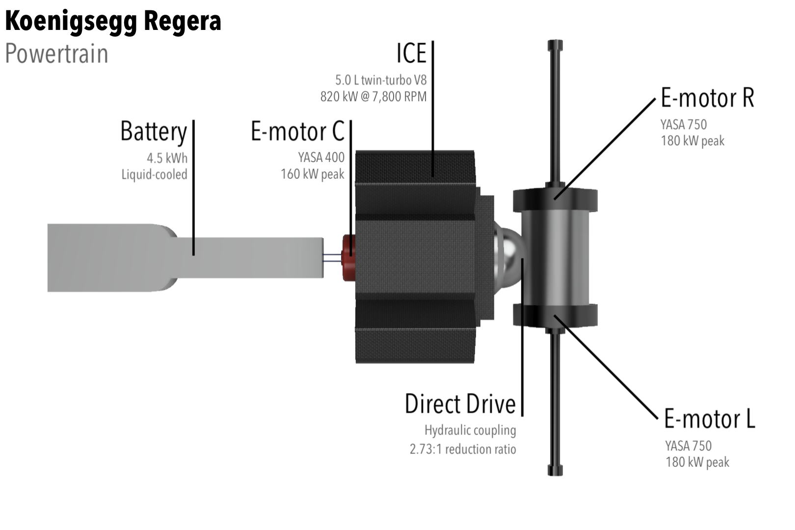 A simple diagram of the powertrain components of the Koenigsegg Regera.